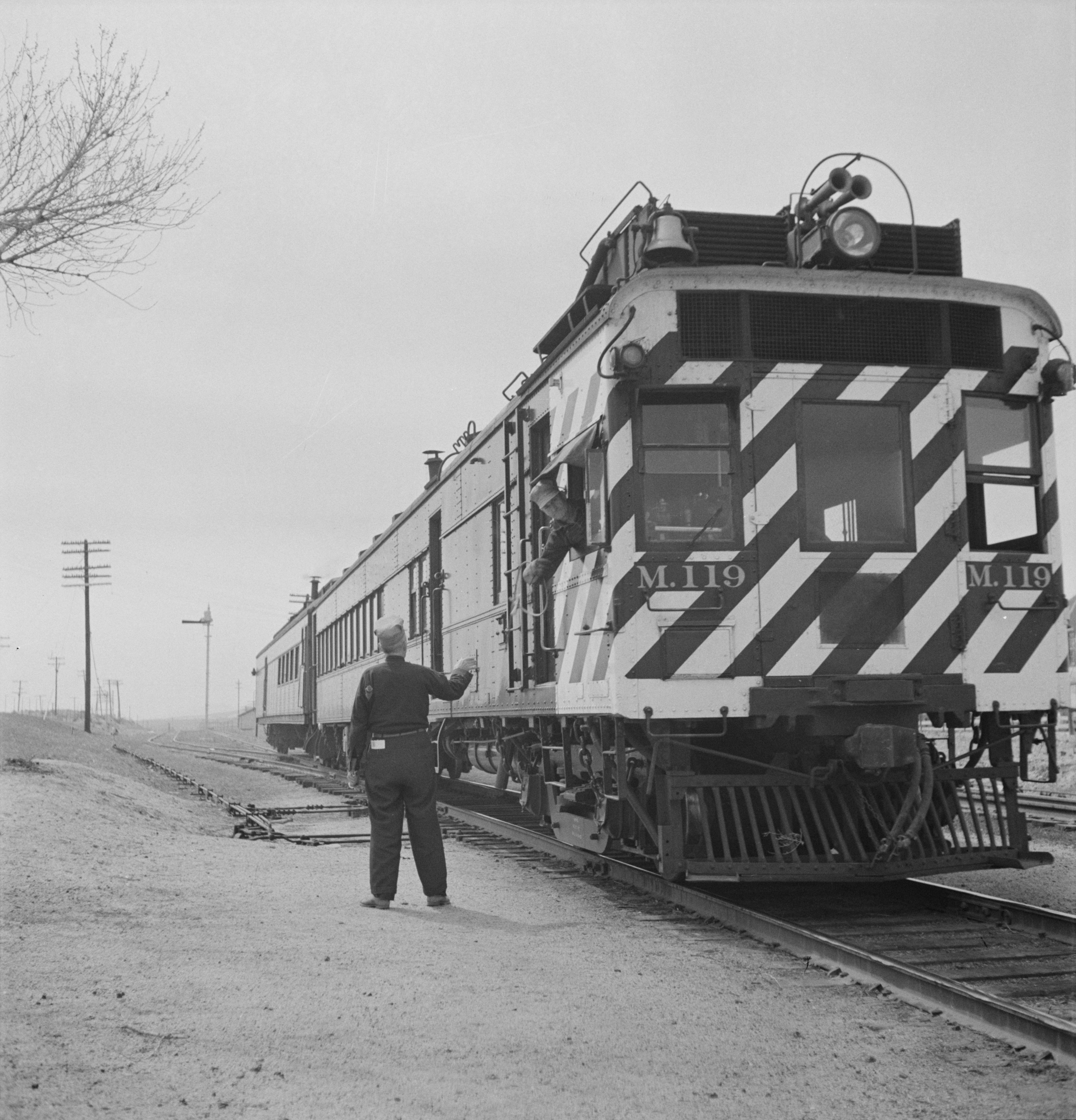 Isleta, New Mexico. Engineer of a passenger train on the Atchison, Topeka and Santa Fe Railroad picking up a message passed to him by the agent, by hand. This diesel train called the "Doodle Bug" makes all local stops